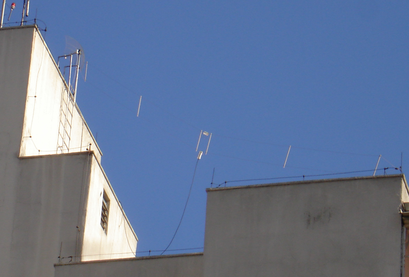 Photo of a T2FD antenna used for amateur radio service for bands of 40 to 10 meters.